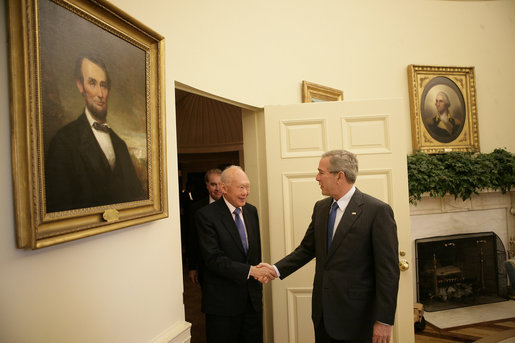 President George W. Bush welcomes Minister Mentor Lee Kuan Yew of Singapore to the Oval Office Monday, Oct. 16, 2006. White House photo by Eric Draper